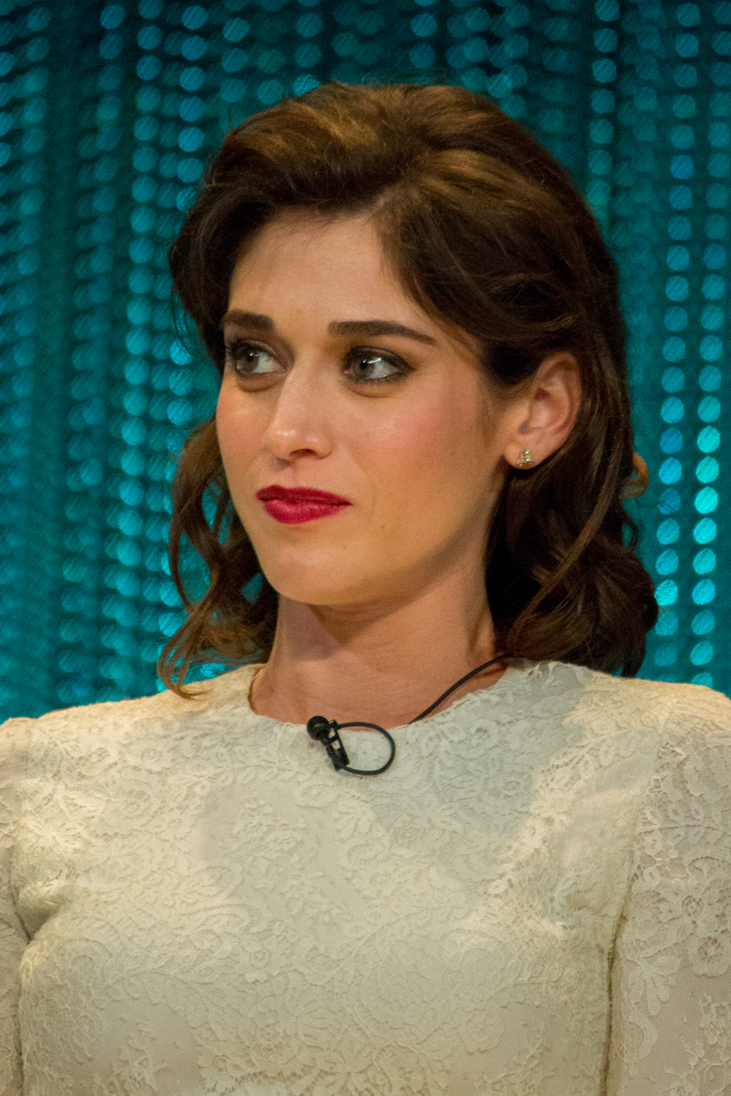 Lizzy Caplan at The Paley Center For Media's PaleyFest 2014 Honoring "Masters Of Sex"